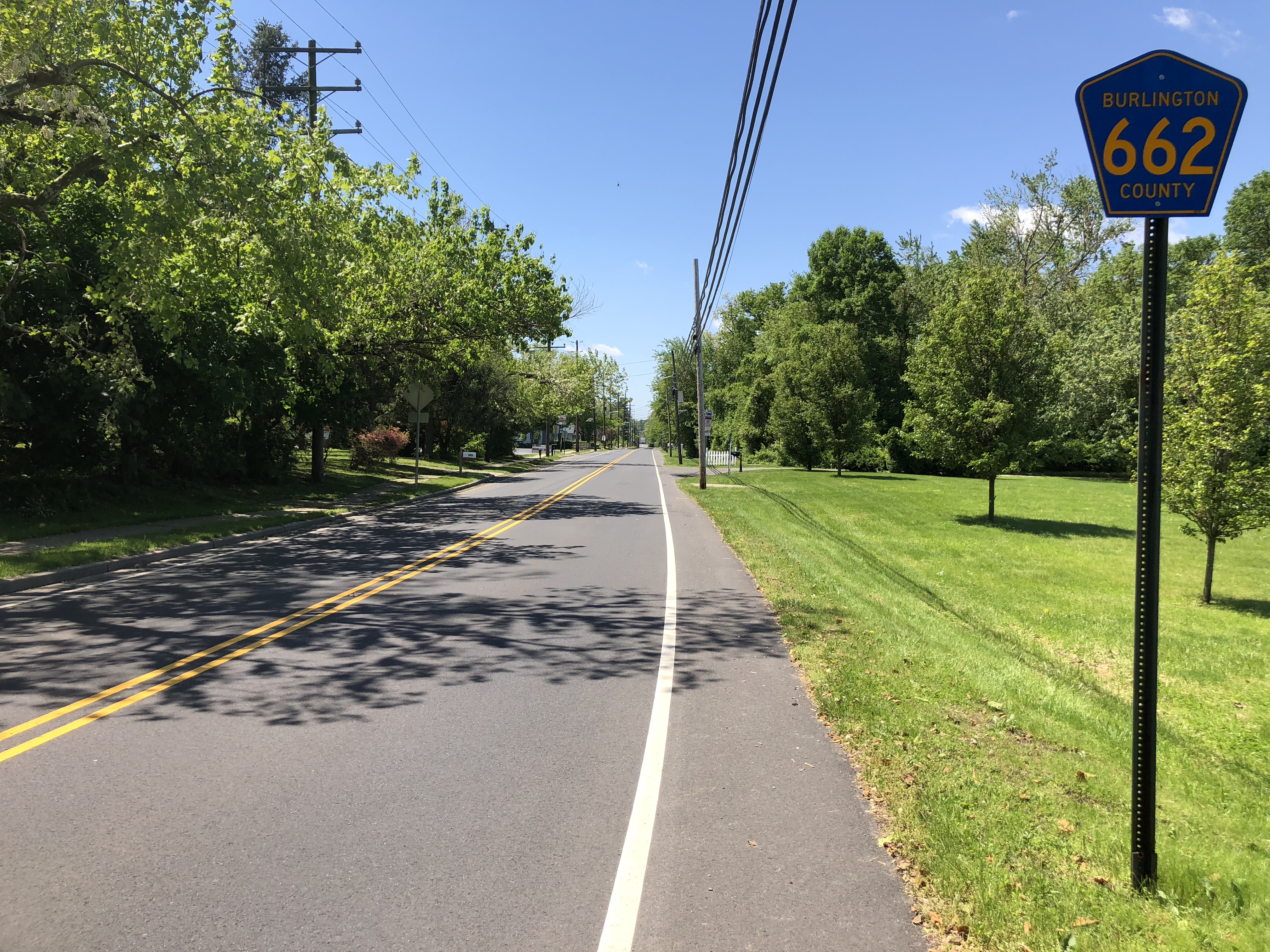 View west along Burlington County Route 662 (4th Street) just west of Delaware Avenue in Fieldsboro, Burlington County, New Jersey